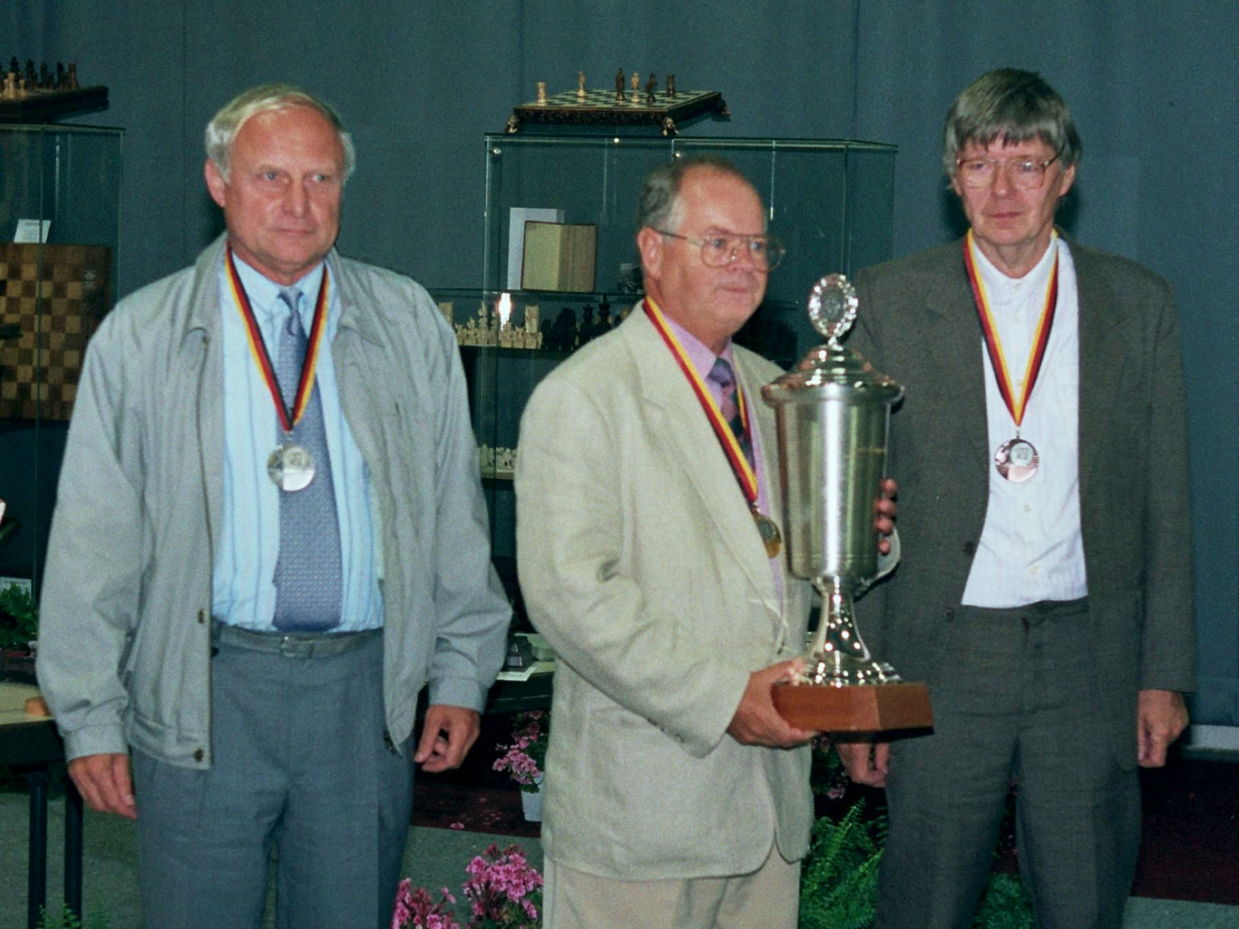 Victory ceremony: Ralf Scheipl, Gottfried Braun and Bodo Starck, German Senior Chess Championship 1995 at Oldenburg, Photographer Gerhard Hund.